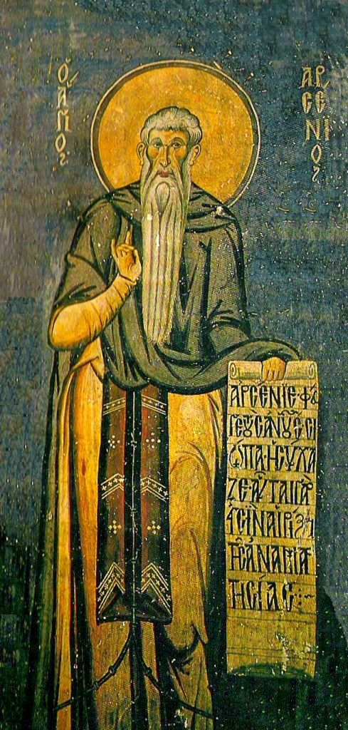 Saint_Arsenius_the_Great_Fresco_in_Saints_Cosma_and_Damian_Church_in_Kastoria.